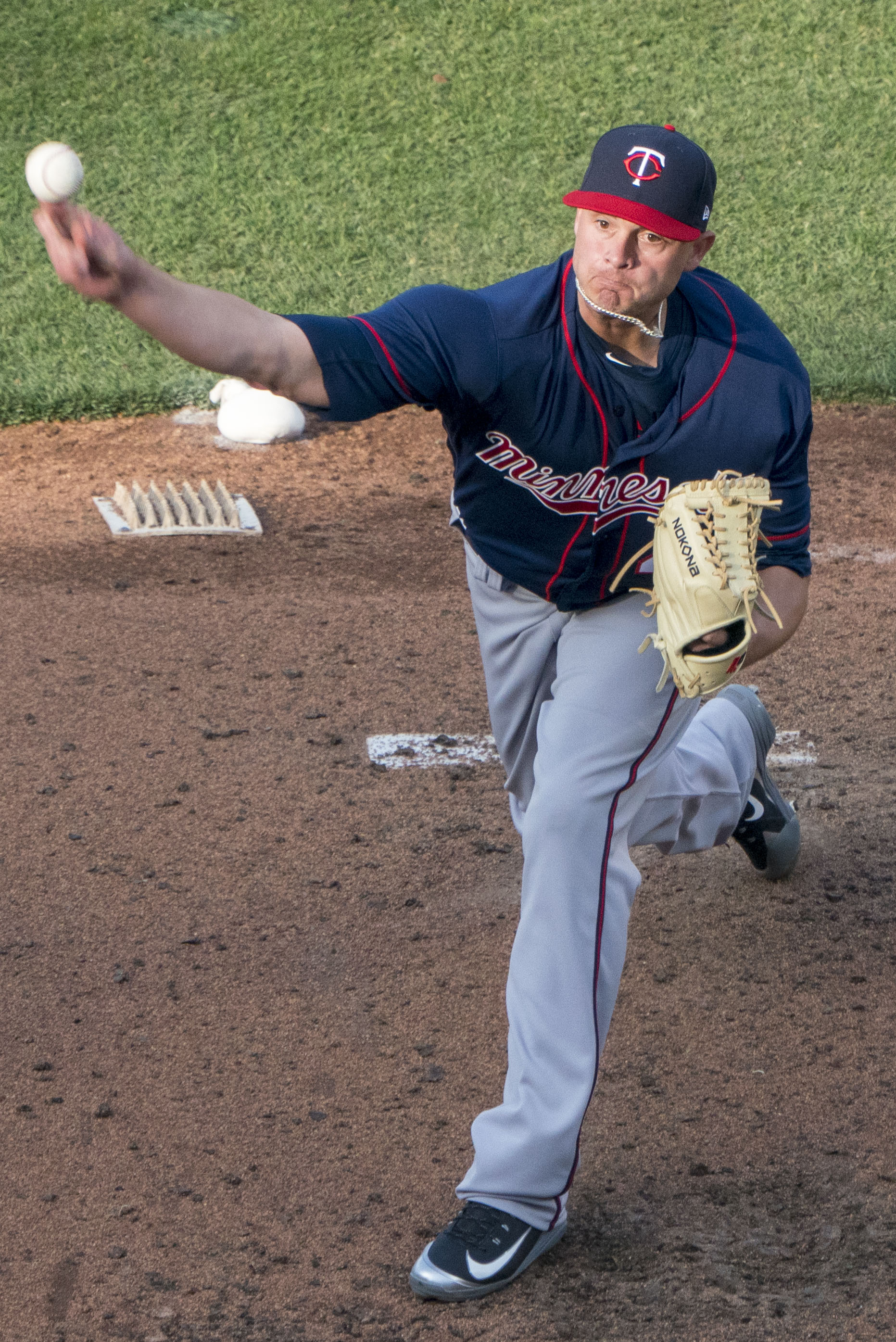 Twins at Orioles 3/29/18